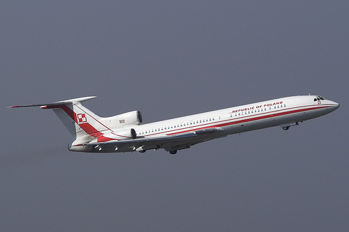 One of two Tupolev Tu-154M aircraft used by the Republic of Poland's government to transport officials. This aircraft, tail number 102, is used by the prime minister.